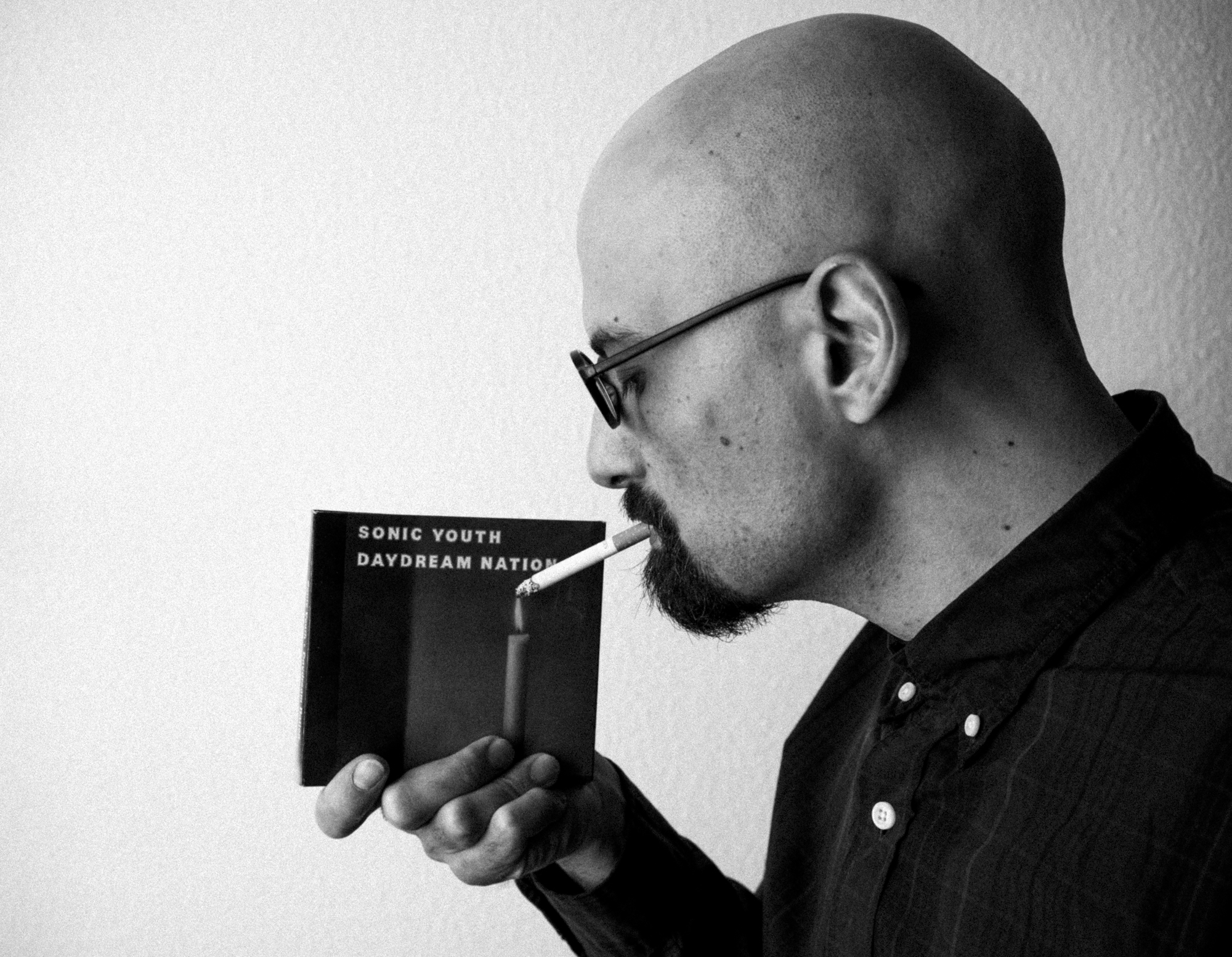 This is the picture of writer Zaza Burchuladze